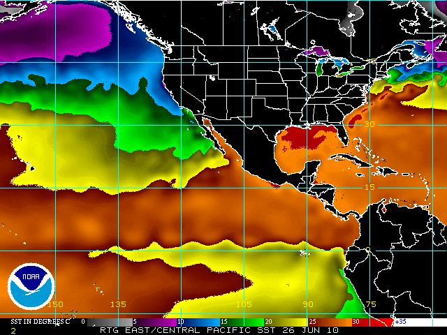 Plot of sea surface temperatures on June 26, 2010, from the NOAA web page. The purpose of this image is to illustrate tropical instability waves, which are visible as a series of north-south deflections of the tongue of cold water that extends along the equator.